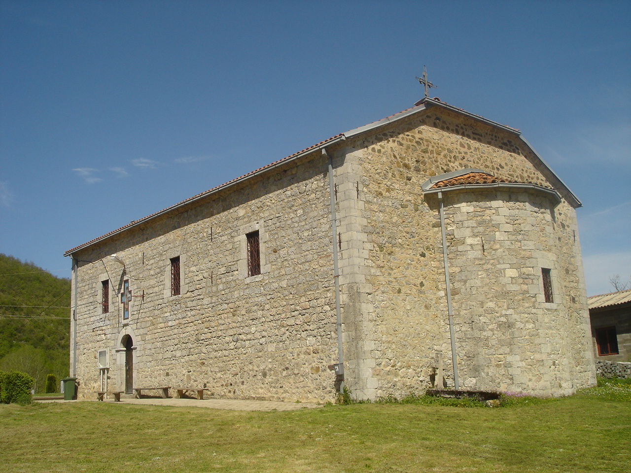 Church in the village of Lukovo, near Struga, Macedonia